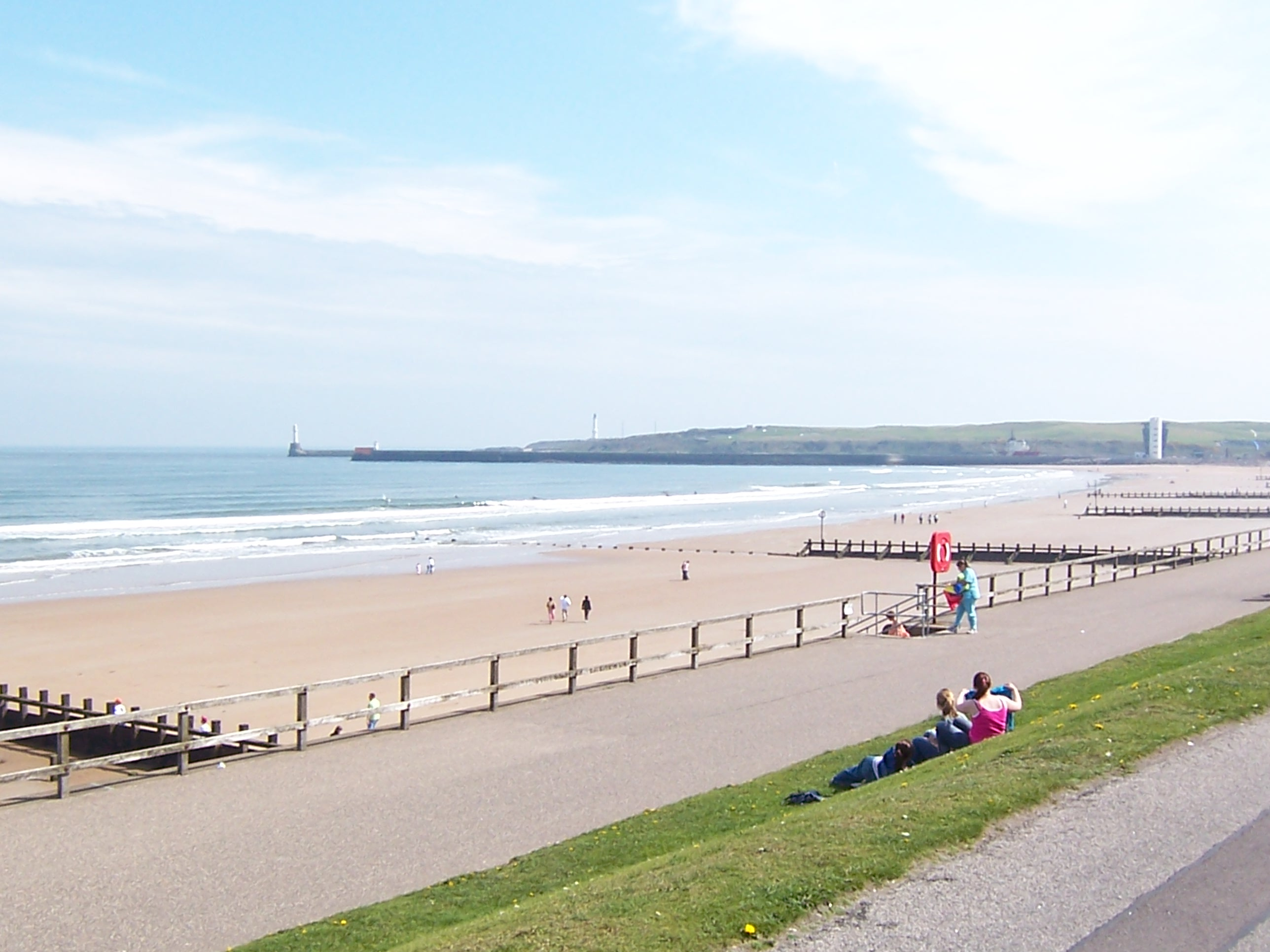 Aberdeen Beach.